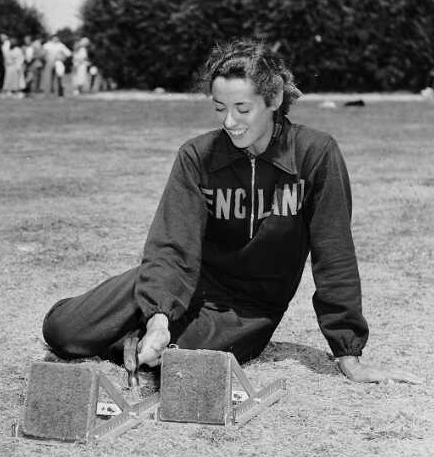 Athletes in the 1950 British Empire Games, Doris Parker of Waikato and Sylvia Cheeseman of England, on the track at Eden Park. Shows Cheeseman hammering her starting blocks into place. Photograph taken in February 1950 by an Evening Post photographer.